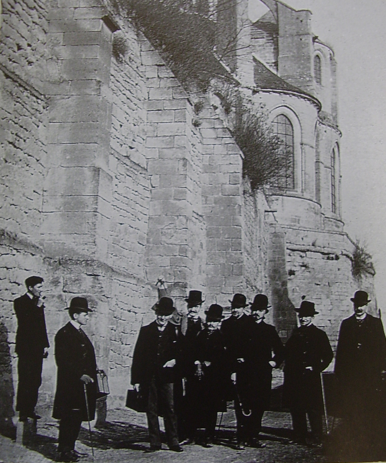 Archeological journey to Saint-Leu d'Esserent by pupils of Ecole des chartes. Standing on Rue Henri Barbusse, with the Église prieurale de Saint-Leu-d'Esserent in the background.